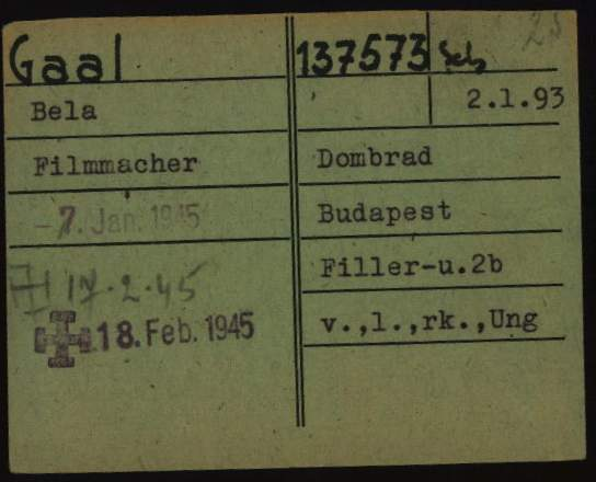 Béla Gaál's prisoner registry card at Dachau Nazi Concentration Camp. 7 January 1945: Date of Gaál’s arrival at Dachau 17 or 18 February 1945: Date of Gaál’s death. (The discrepancy between penciled and stamped dates may be due to his death occurring during the night.)